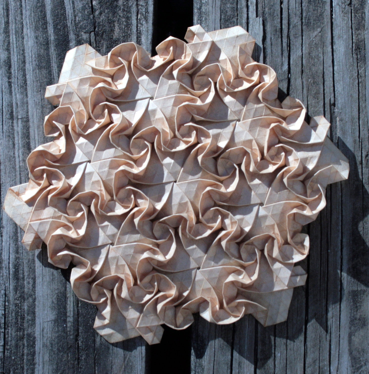 Origami tesselation: Fantasia